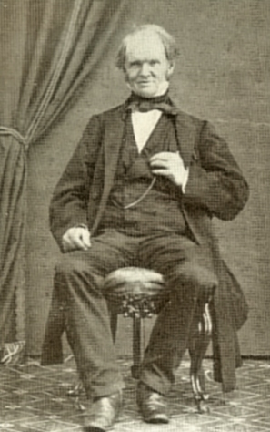 Olof Peter Anderson, better known as O.P. Anderson